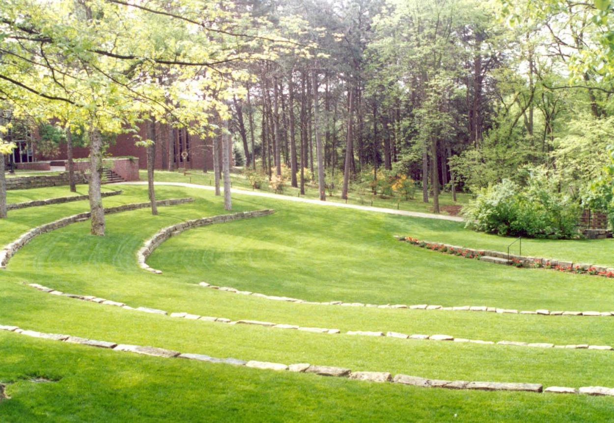 A tiered outdoor theatre setting, built with retaining walls to form the gradual downward steps